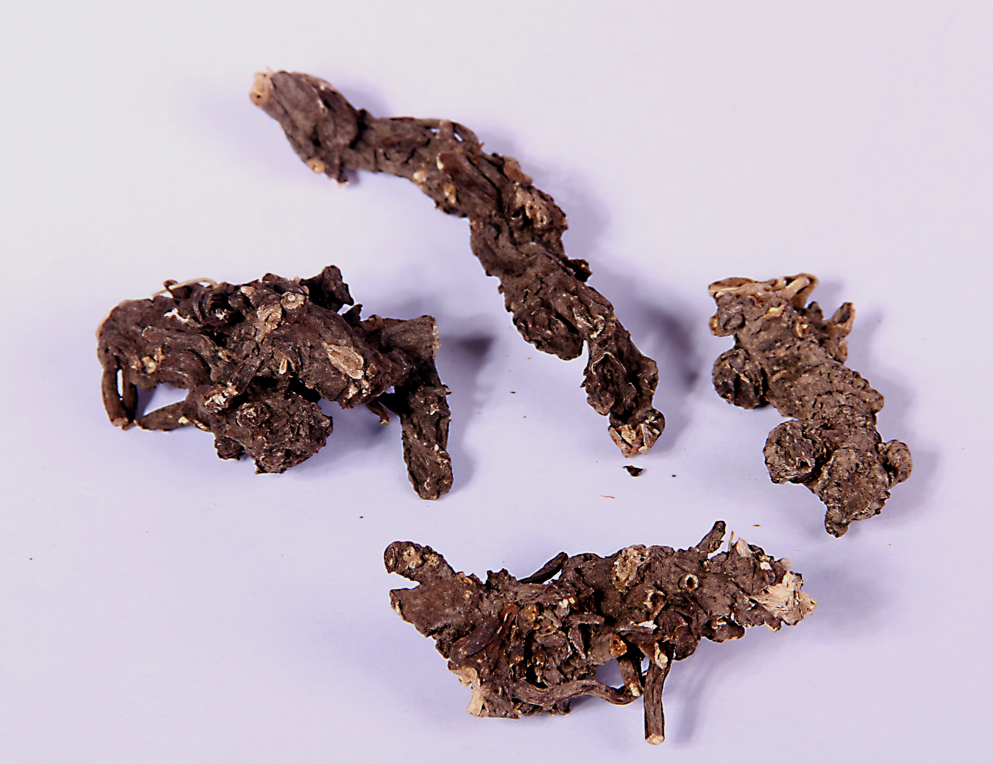 Black Hellebore root